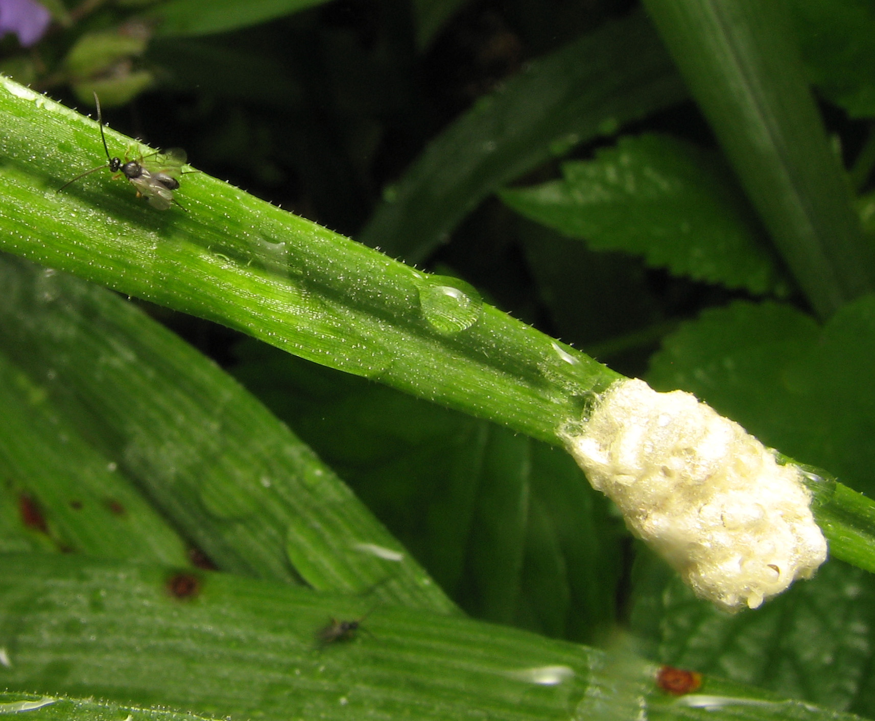 Cocoons of Cotesia wasp and recently emerged adult on Tradescantia virginiana. Size: cluster, approximately 15 mm. cocoons, 2mm. Pennypack Restoration Trust, Montgomery County, Pennsylvania, USA.